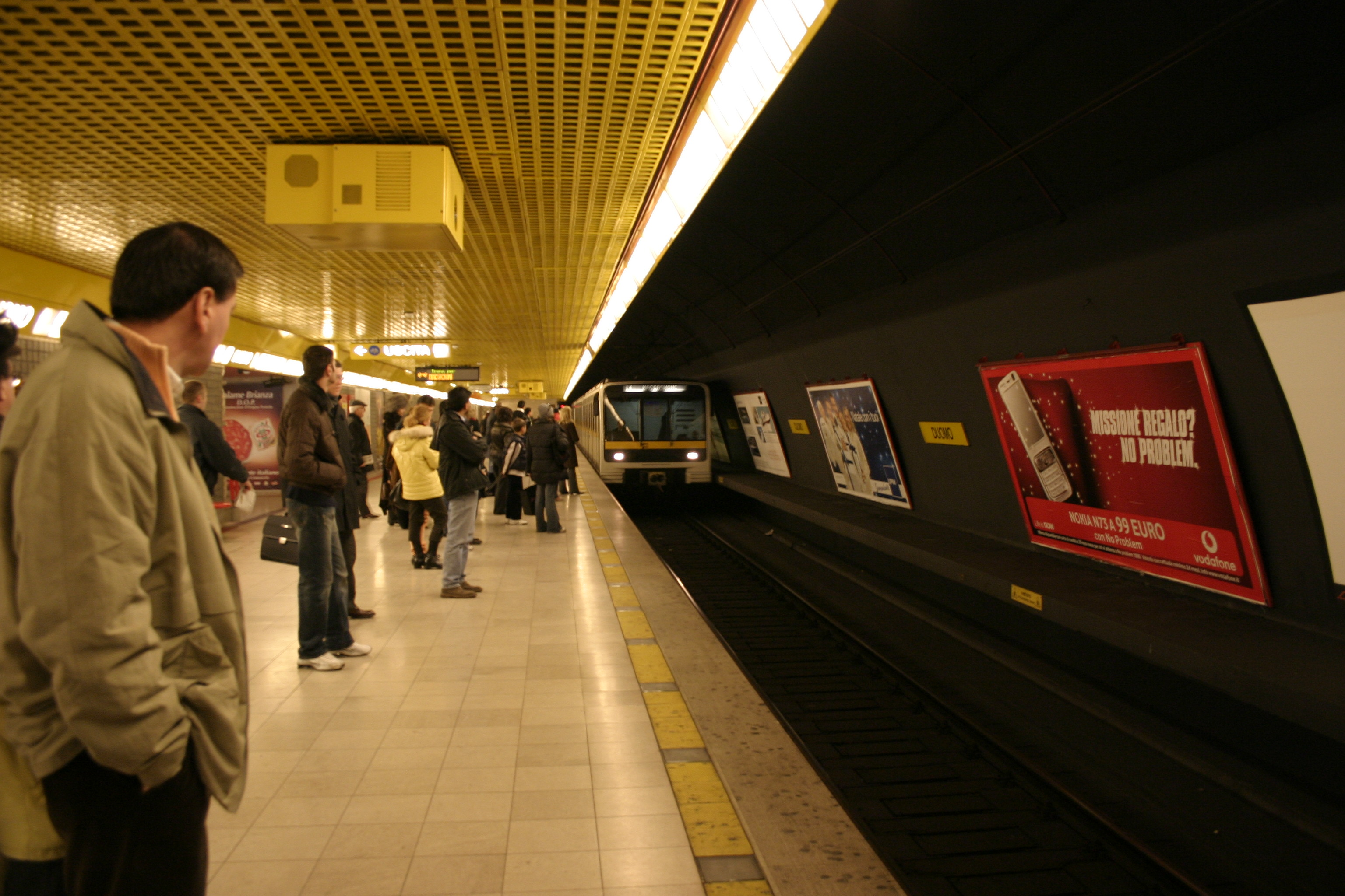 Subway station ("Yellow"/"Red" line) in Milan, Italy.